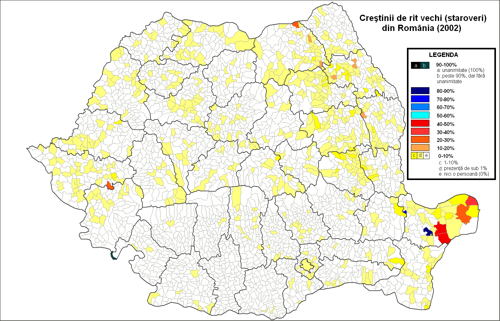 The distribution of the believers of the Lipovan Orthodox Old-Rite Church in Romania (census 2002). In Western Romania, the persons counted as "Old-Rite"-believers are probably Orthodox, but they have been counted by mistake as "Old-Rite Christians".